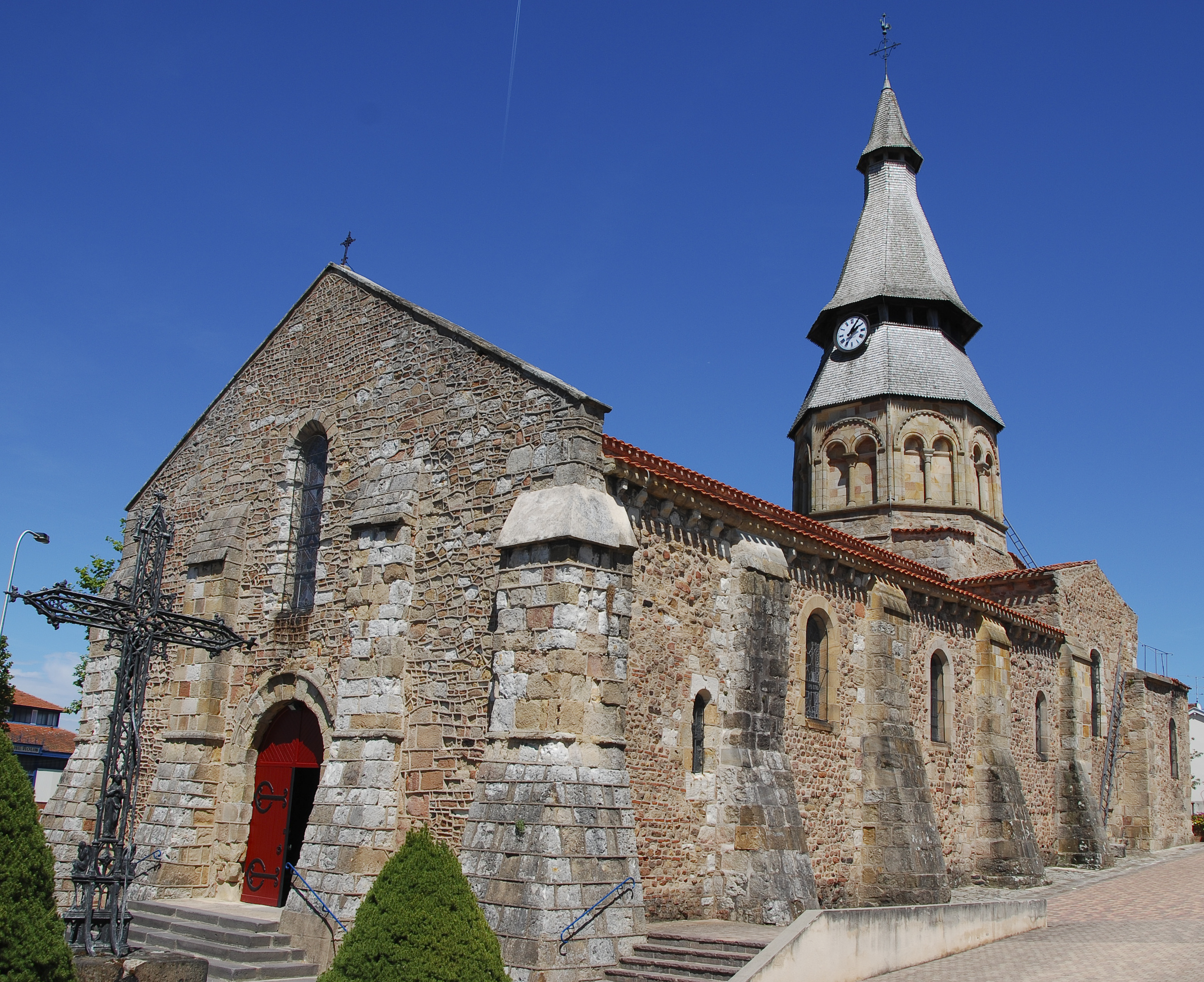 South Side Of the 11th Century Saint Georges Church of Neris Les Bains, Allier, Auvergne, France